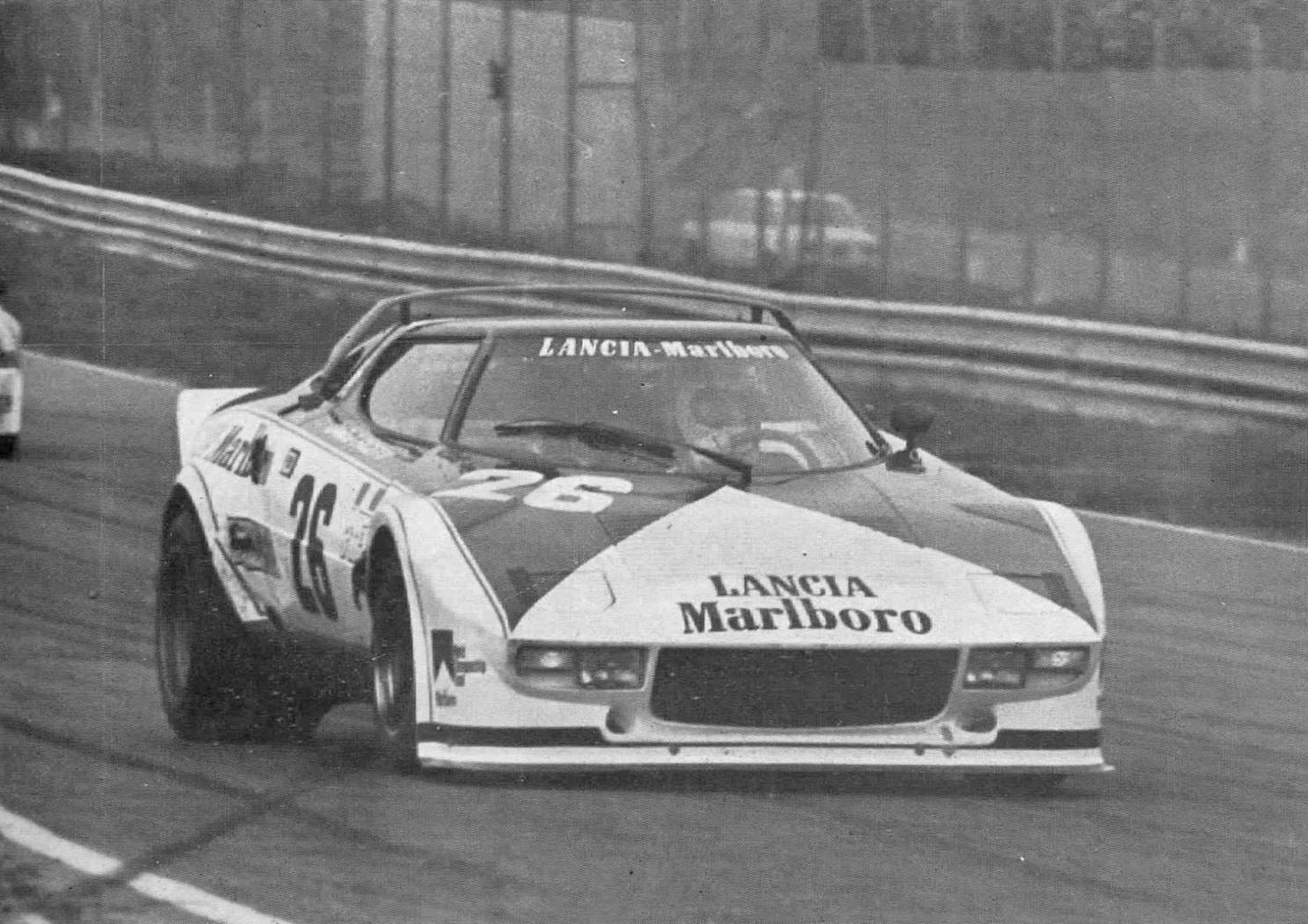 Imola, "Dino Ferrari" Autodrome, April 13, 1975. Italian motor racing driver Carlo Facetti on a Lancia Stratos HF 2.4 V6 320 hp, sponsored Marlboro, at the round 1 of the 1975 European GT Championship.